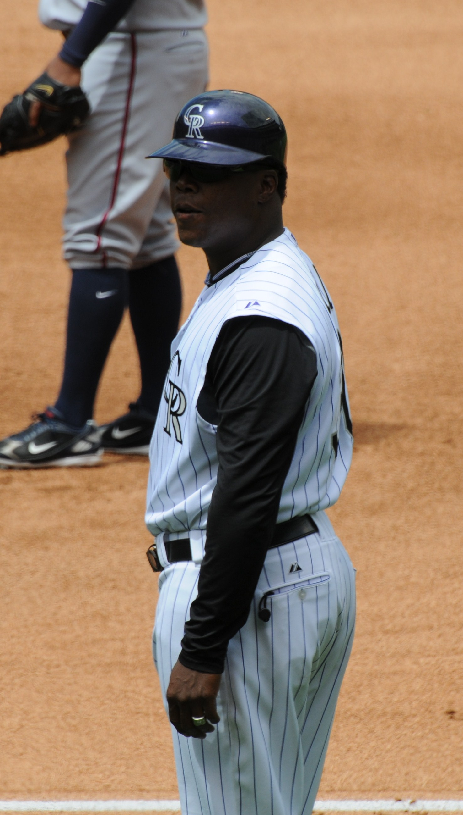 Description own workSource I created this work entirely by myself.Author Onetwo1 (talk) 16:01, 8 August 2008 . . Onetwo1 . . 1,475×2,592 (515 KB) own work